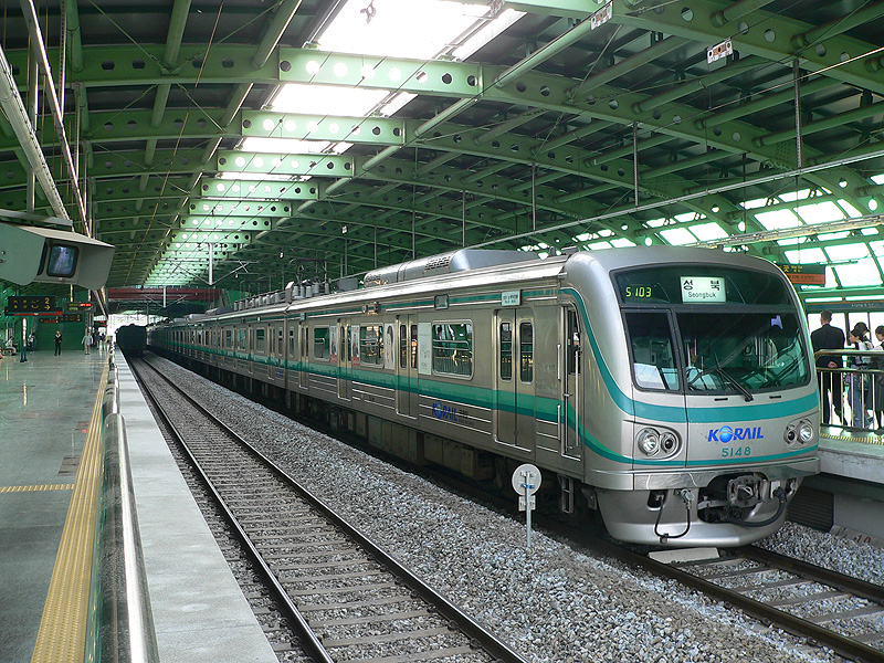 KORAIL 311000 series (formerly 5000 series) EMU (3rd version) Old Color